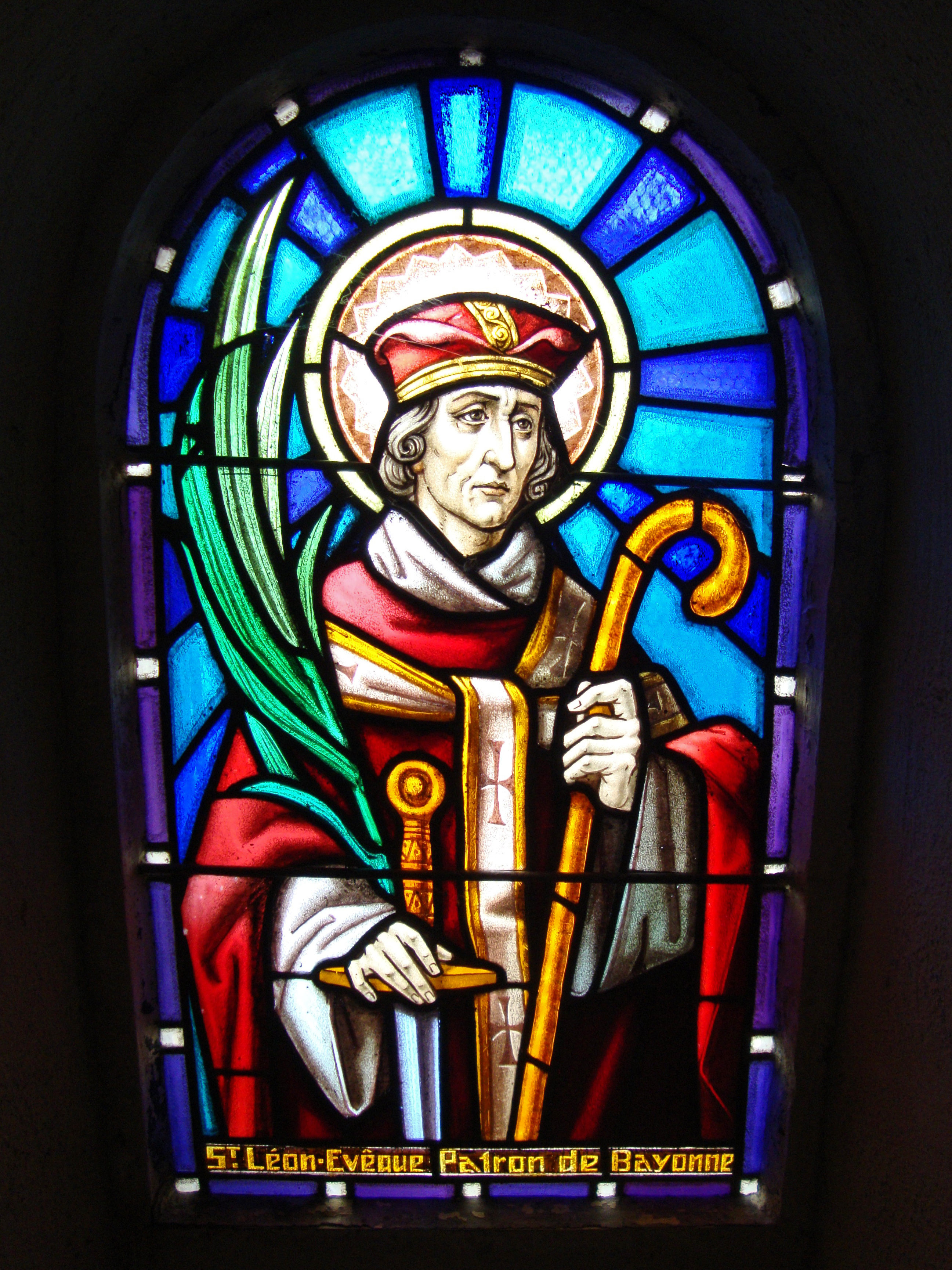 Issor (Pyr-Atl, Fr) Church St.John the Evangelist stained glass window 6, Saint Léon bishop, patron saint of Bayonne